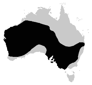 The distribution of Neobatrachus.